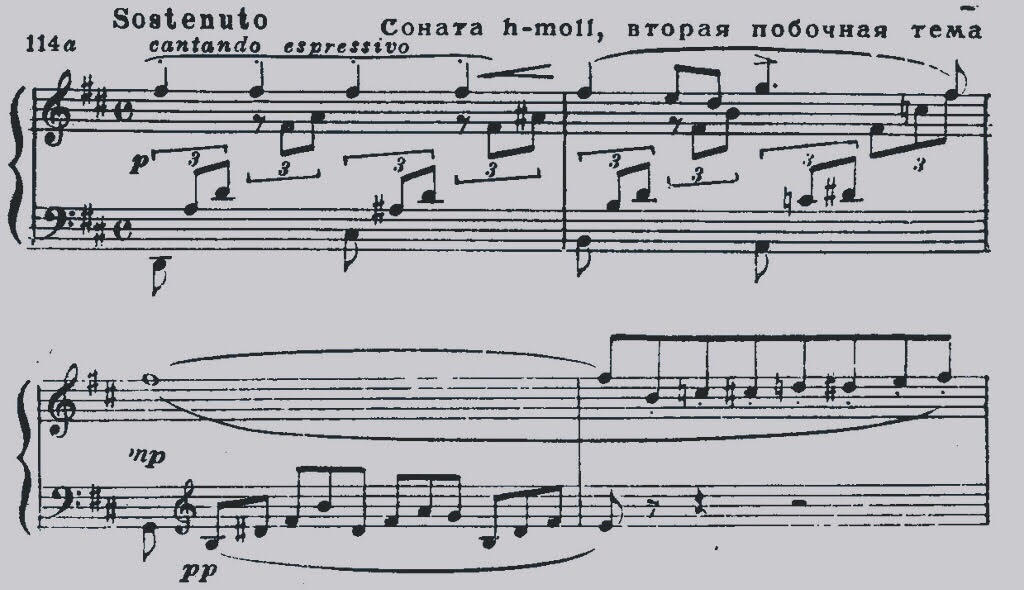 Music manuscript